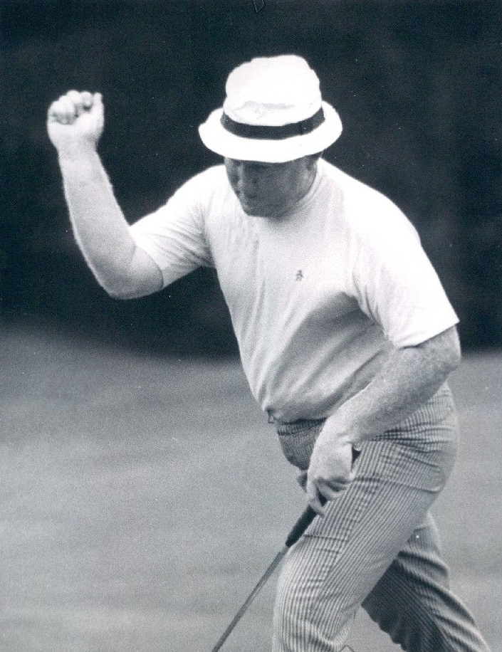 1968 Professional Golfer Bob Murphy Sunk Putt for Birdie Press Photo